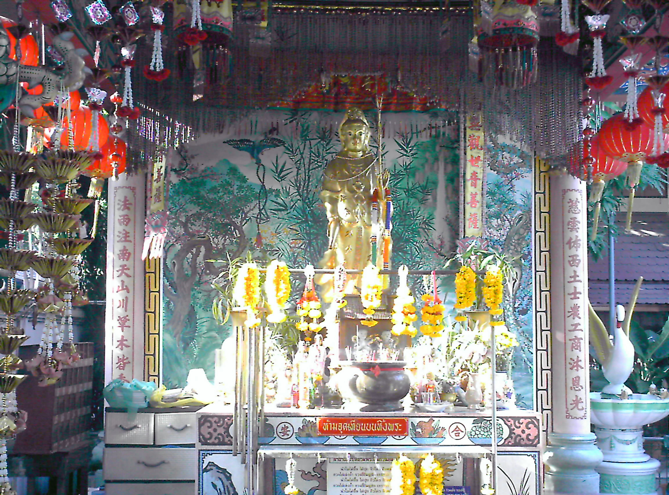 Guan Yin Status of Wat Suwan, Bangkok, Thailand. 中文（香港）: 泰國，曼谷，空訕縣，哇素溫寺，供奉觀世音菩薩的壇